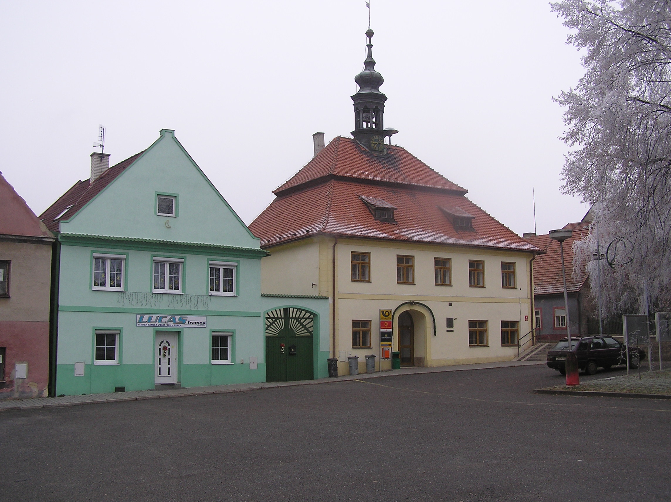 Townhall in Blšany